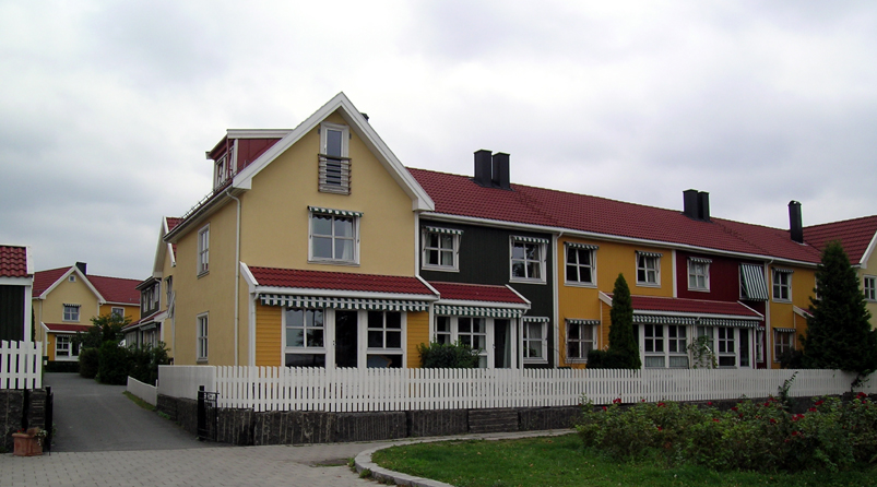 Kampen hageby, Oslo. Built 1994. Architects: Arcasa Arkitekter.